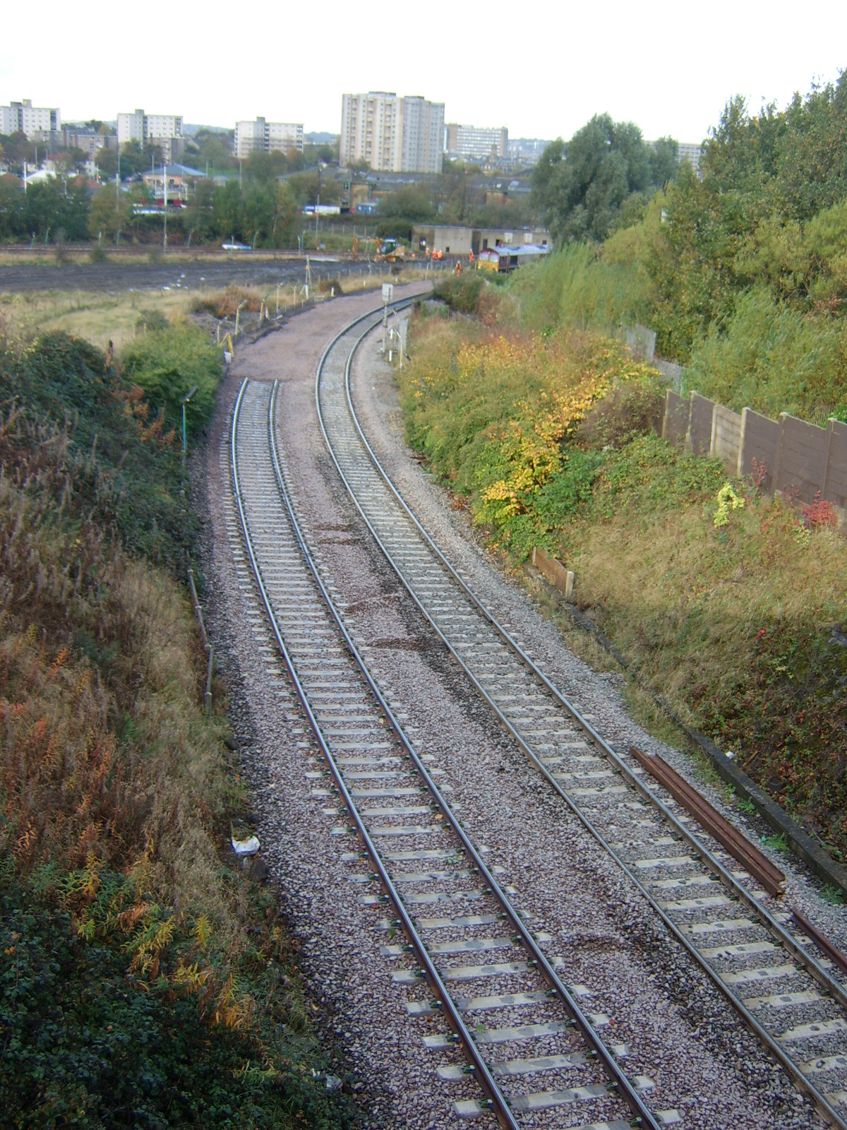 Dunstan Curve Bradford The partly re-laid Dunstan Curve on the approach to Bradford Interchange Station looking toward Mill Lane Junction. Done as part of the re-modelling of the junction. Viewed from Bolling Road bridge. If anybody's interested the Loco is 66145.